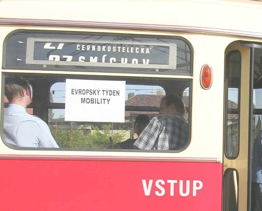 Direction board. Tram T3 in original historic design. Visiting day in the tram depot Prague-Hloubětín, Czech Republic.